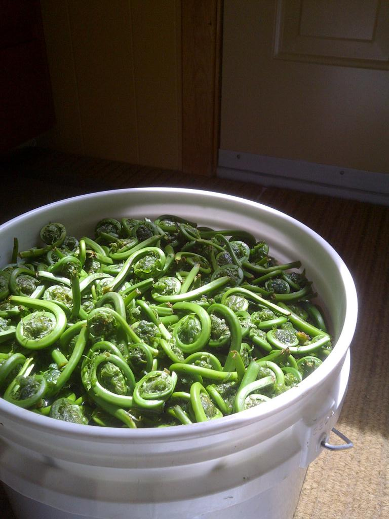 Fresh Fiddleheads on the grocery shelf are a sure sign of spring in New Brunswick. They grow along the riverbanks in marshy areas. Be sure to wash them well before using.